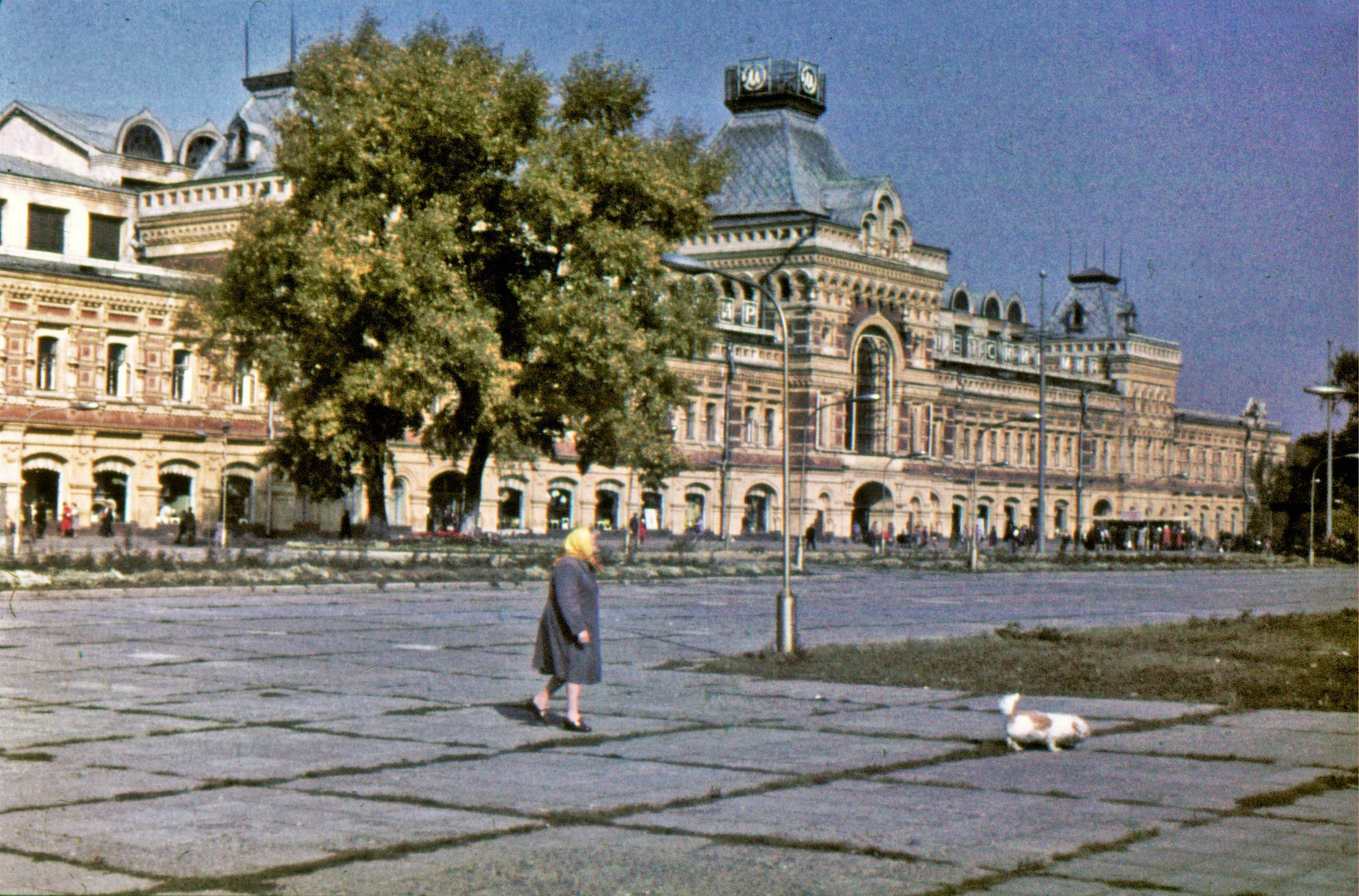 Gorky City. Detskiy Mir Shop in Main Fair building (Nizhegorodskaya Yarmarka )